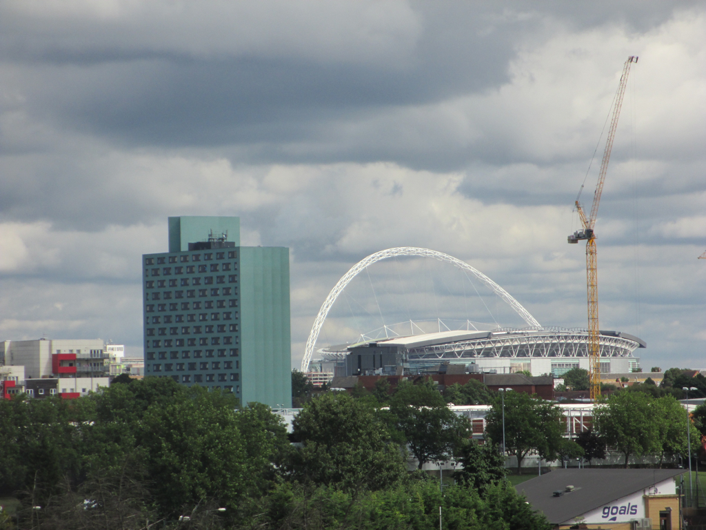 Wembley Arch